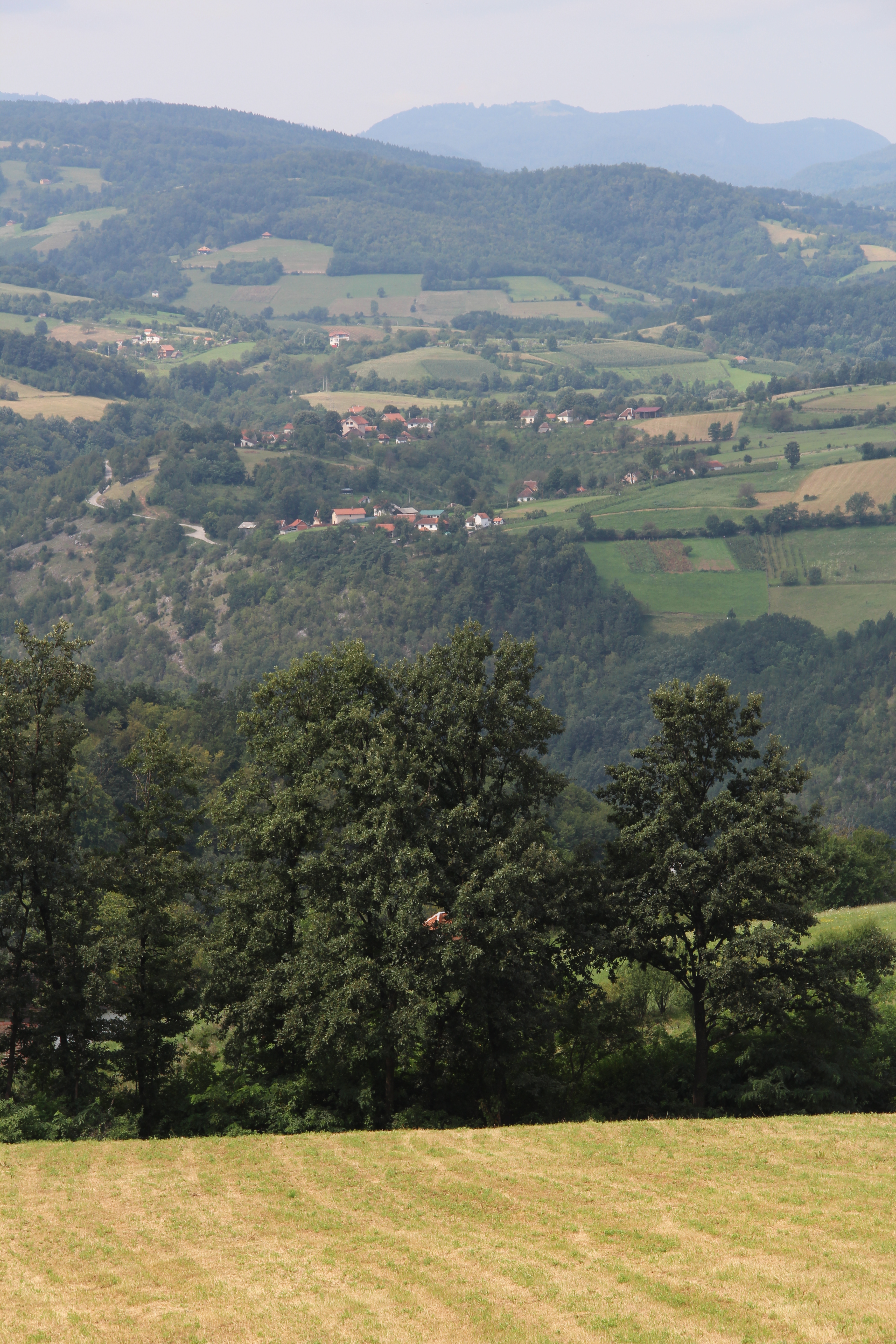 Bacevci village - Municipality of Valjevo - Western Serbia - Panorama 23